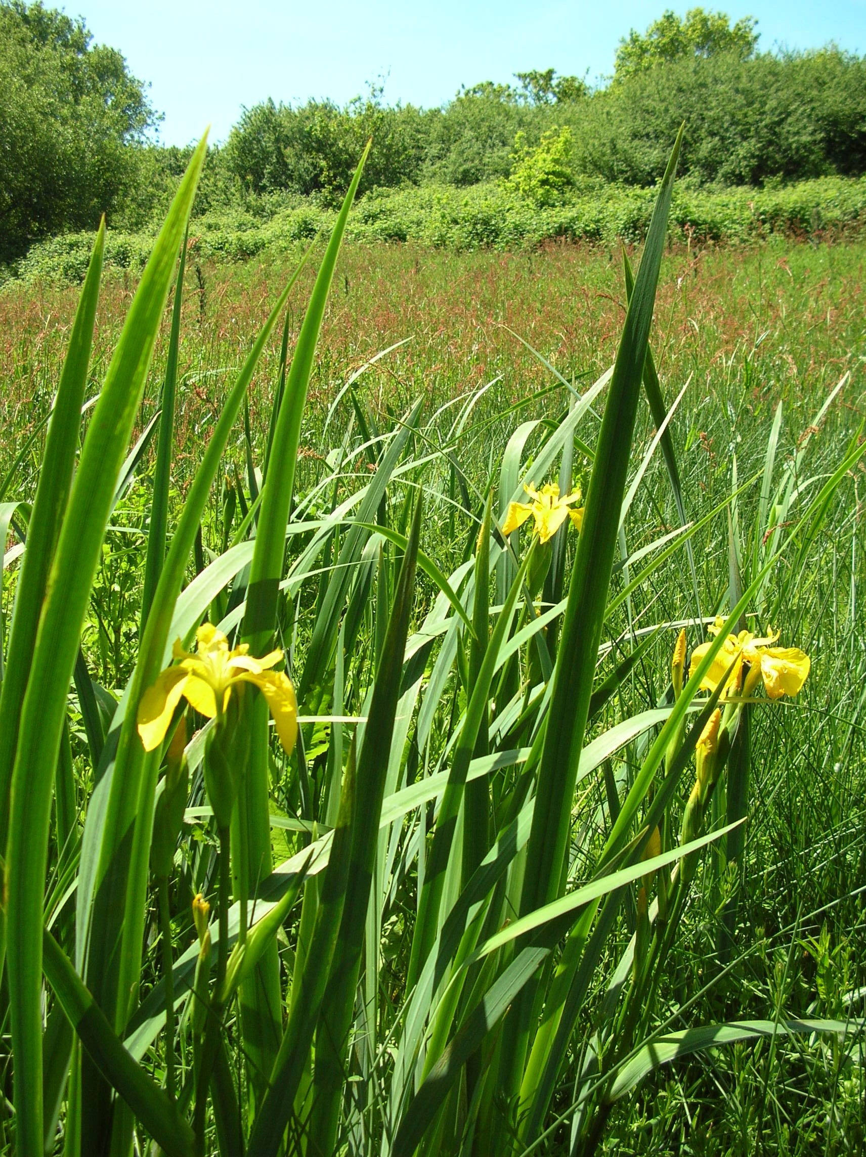 Yellow Flag at Fremington LNR